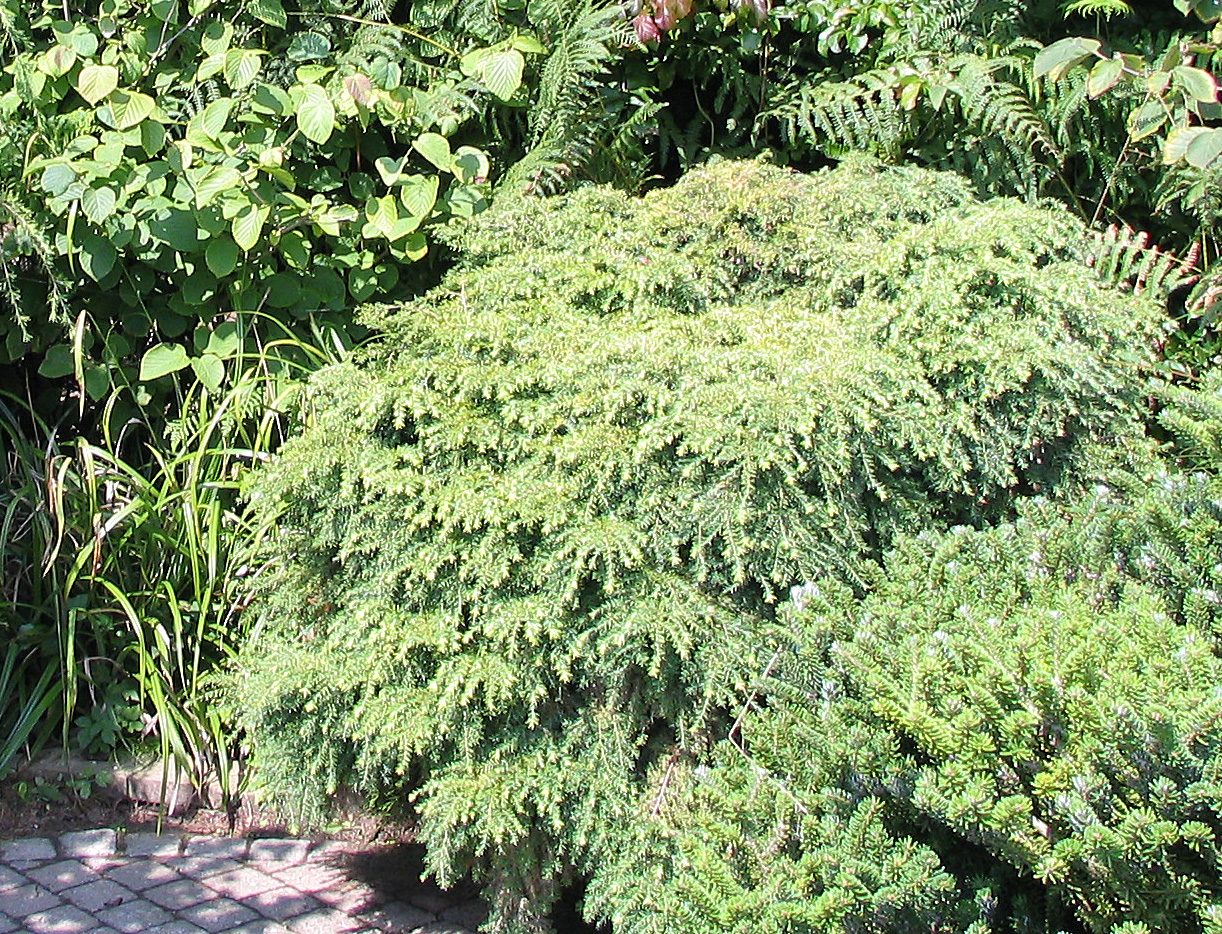 Tsuga canadensis 'Jeddeloh' shrub